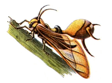 Insects